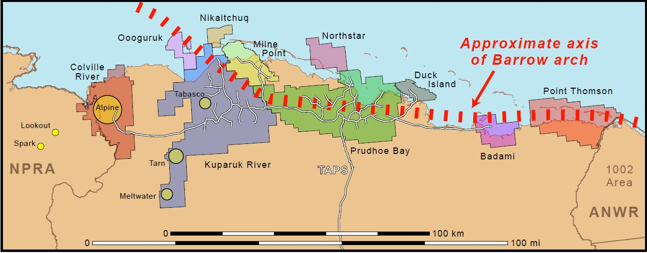 Map of producing fields from the Alaskan North Slope U.S. Geological Survey Professional Paper 1732–A